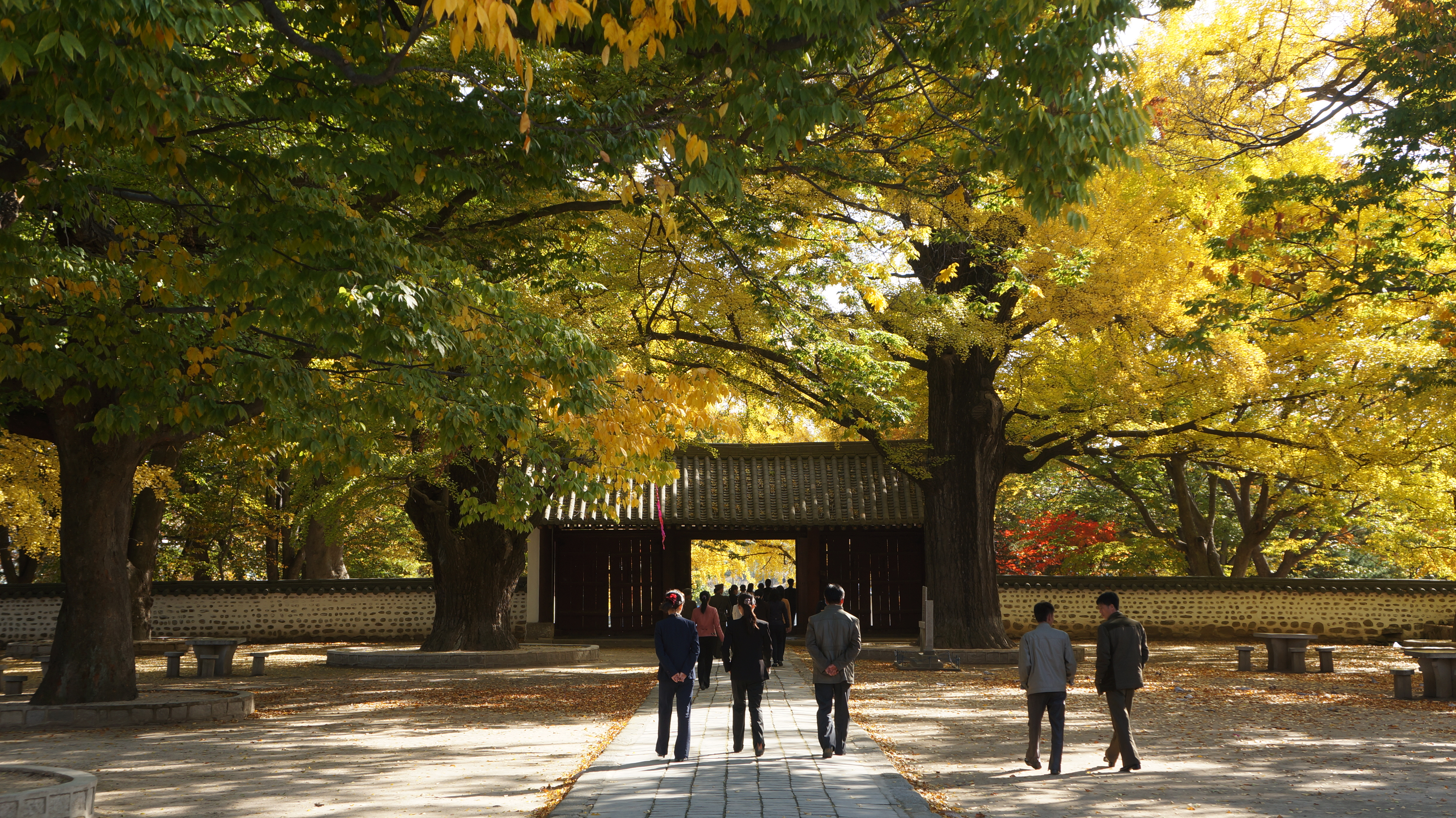 North Korea DPRK